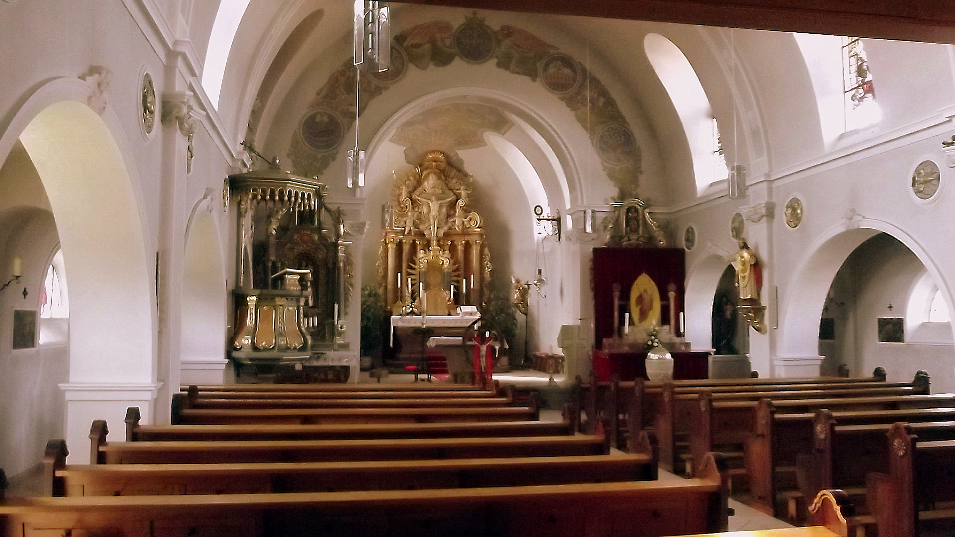 Interior of the roman catholic church in Borg, Saarland, Germany